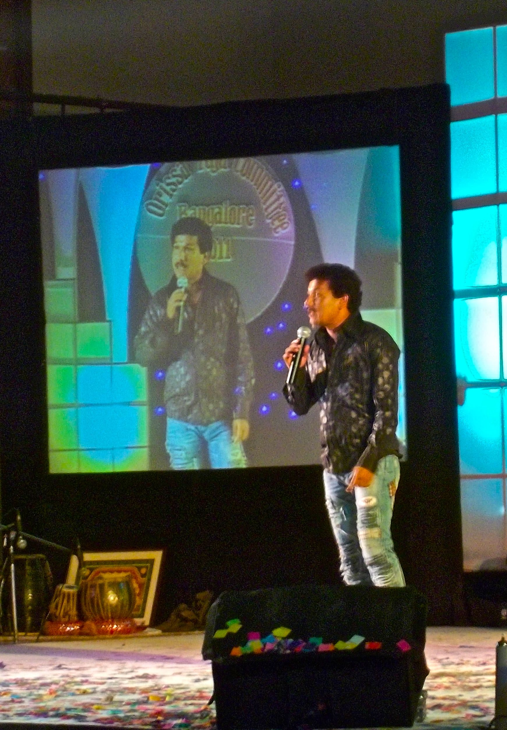 Odia stand up comedian Papu Pom Pom.